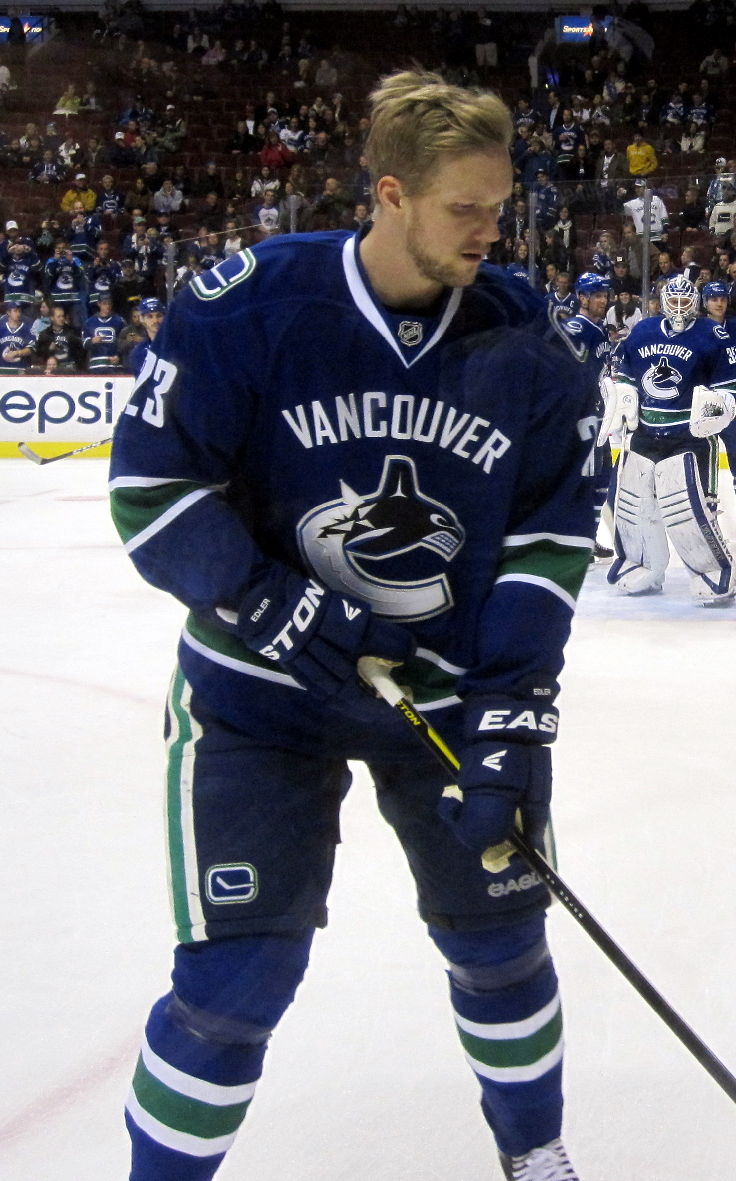 Vancouver Canucks defenceman Alexander Edler during a pre-game warm-up on March 14, 2012.